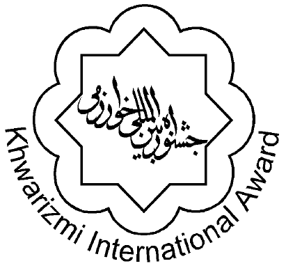 Khwarizmi International Award Logo